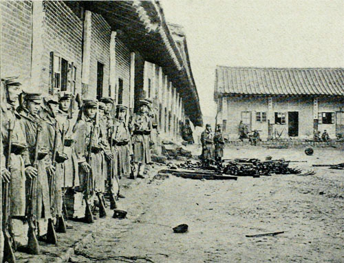 Japanese army quell the Korea Imperial army uprising and occupy the they barracks.